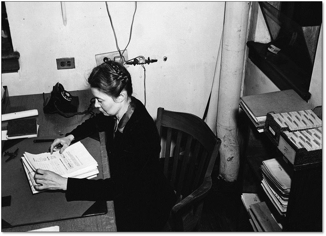 Dr. Hoylande Young, director of Argonne’s Technical Information Division and the laboratory’s first female division director. Her office measured 9 x 6 feet. She was also the first woman to chair the Chicago chapter of the American Chemical Society.